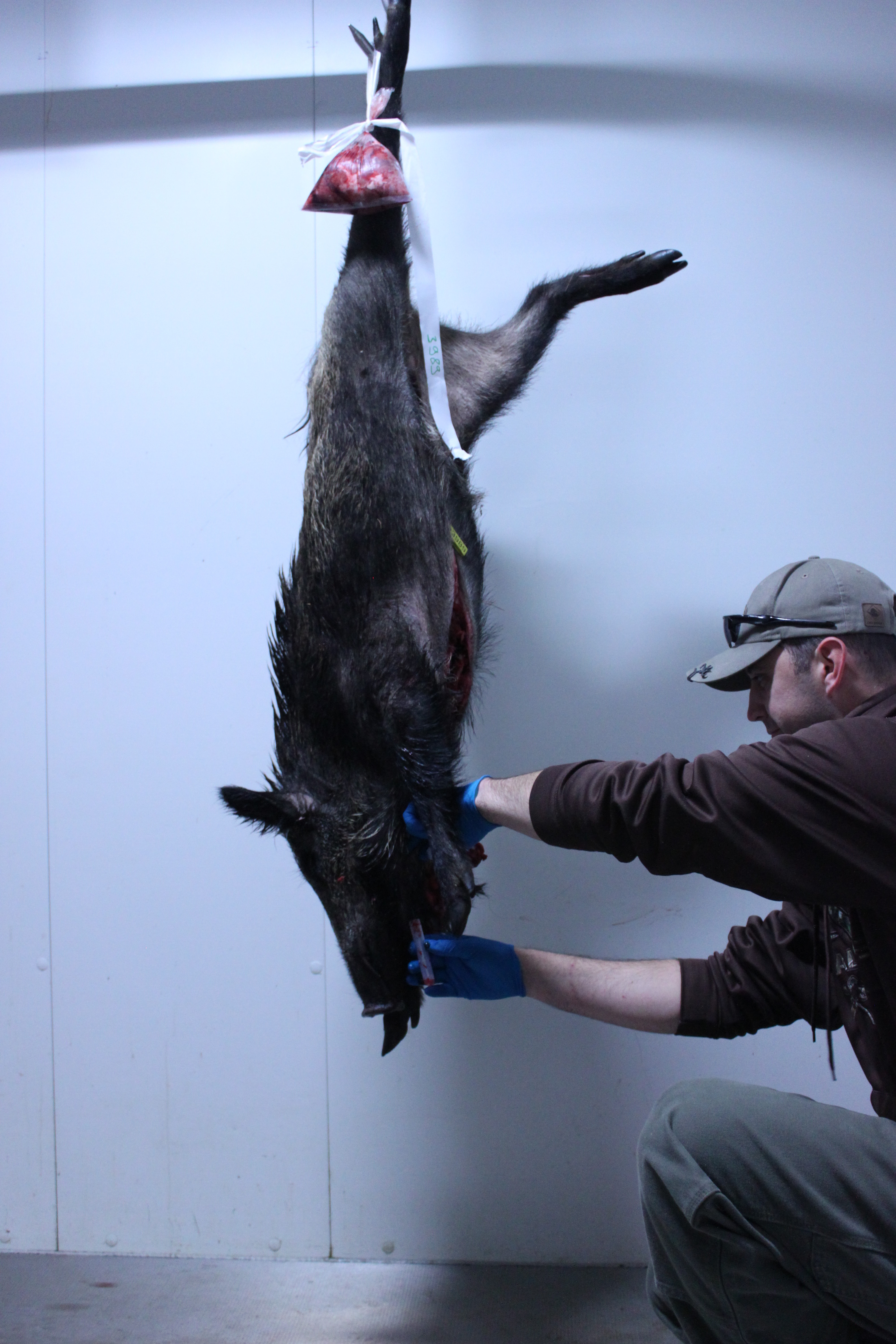 "Stay vigilant for African Swine Fever - U.S. Air Force Master Sgt. Kristopher Worcester, Kisling Non-Commissioned Officer Academy director of resources, takes a blood sample for a wild boar he killed outside Kaiserslautern, Germany, Oct. 2, 2018. In order to stay ahead of the African Swine Fever Virus, hunters are required to submit blood and tissue samples of their kills to the Kaiserslautern Forestry Department to ensure they test negative for ASFV."